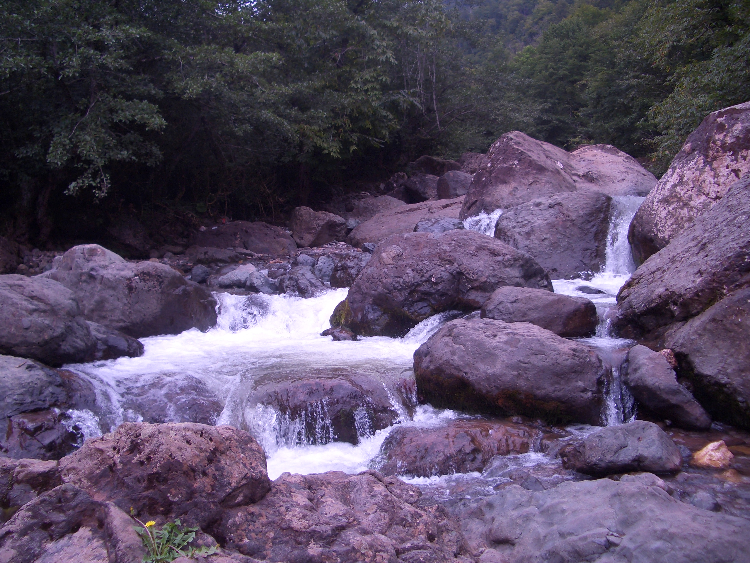 River Chanistskali, Tsalenjikha District